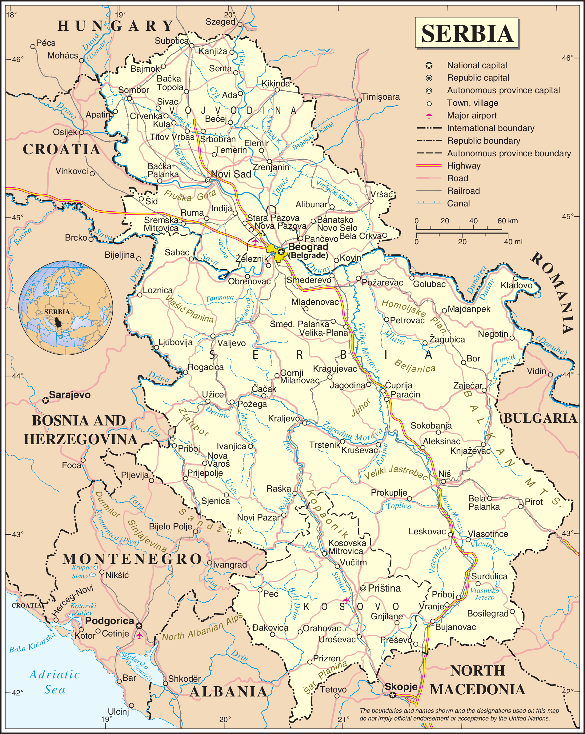 Map of Serbia with Kosovo included